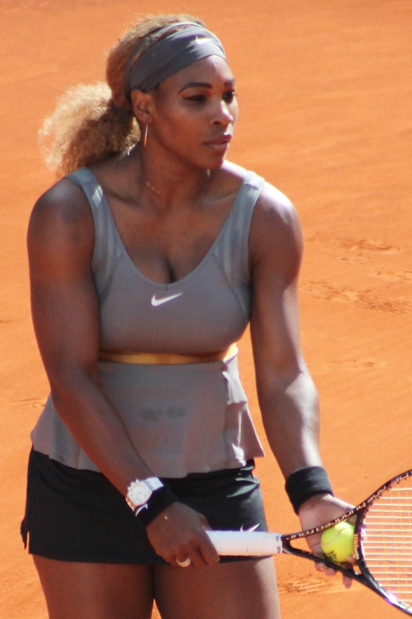 Serena Williams serving at Madrid 2014